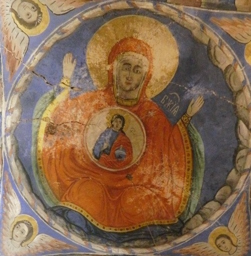 Rakle Church Fresco